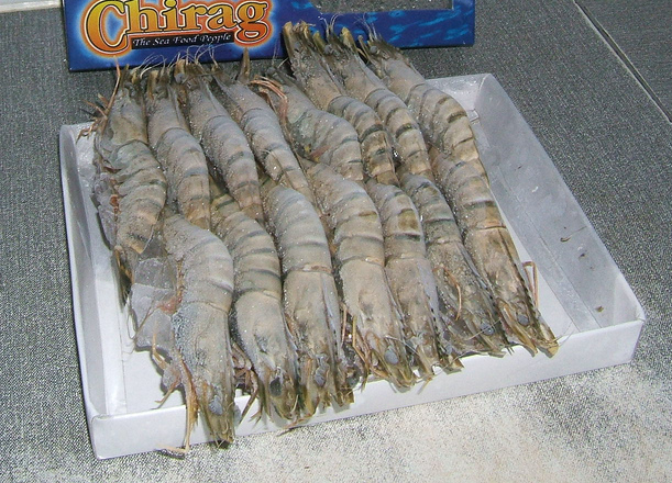 Frozen head-on Penaeus Monodon, farmed in South-East Asia and sold worldwide. Photo:LHOON